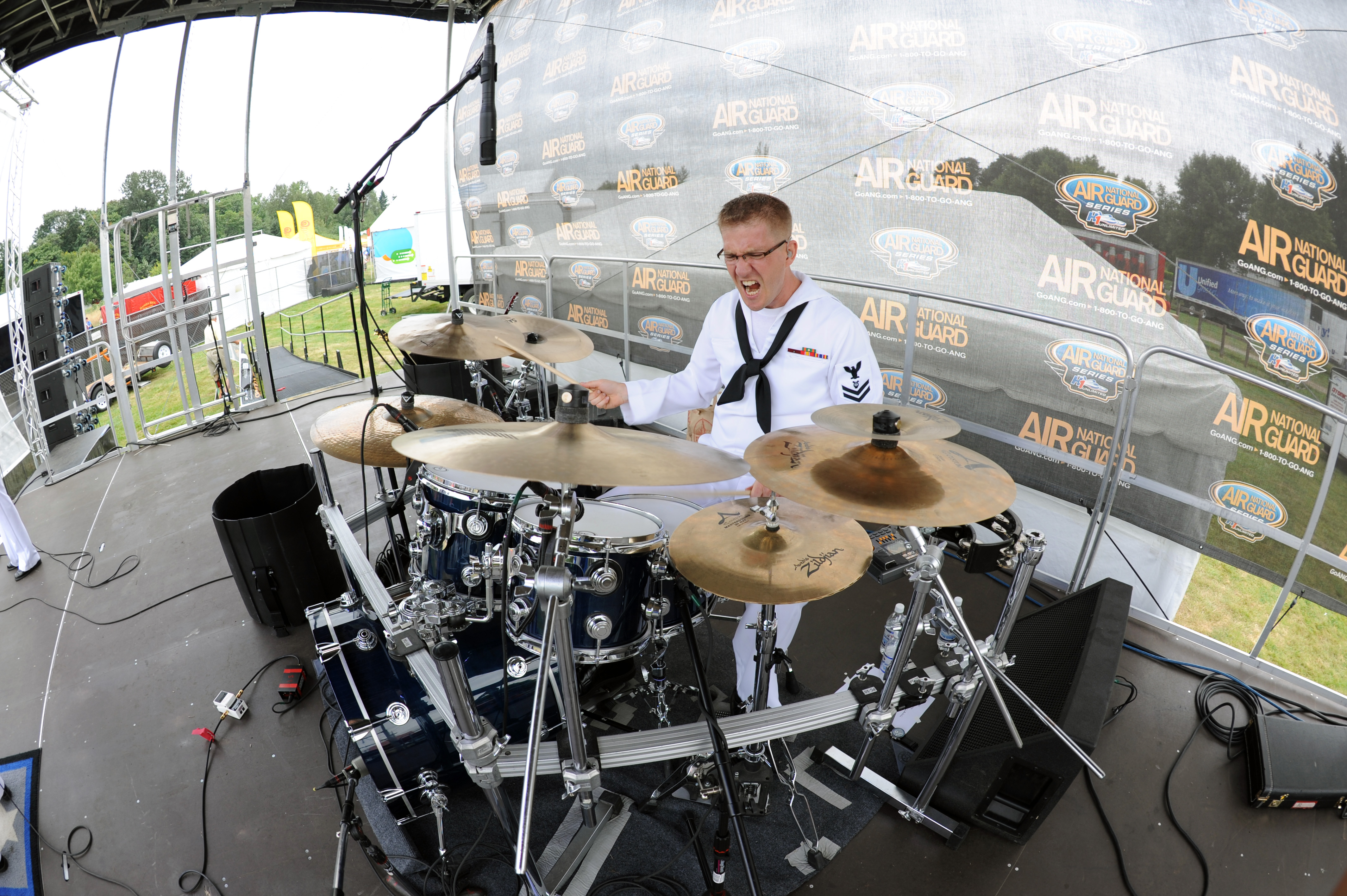 SEATTLE (Aug. 5, 2011) Musician 2nd Class Edward Moore, assigned to the Navy Band Northwest's popular music group, Passages, performs a drum solo at Genesee Park during the 62nd annual Seattle Seafair Fleet Week. Seafair activities allow U.S. and Canadian sailors and Coast Guard personnel to experience the local community and to promote awareness of the maritime forces. (U.S. Navy photo by Mass Communication Specialist 2nd Class Nathan Lockwood/Released)